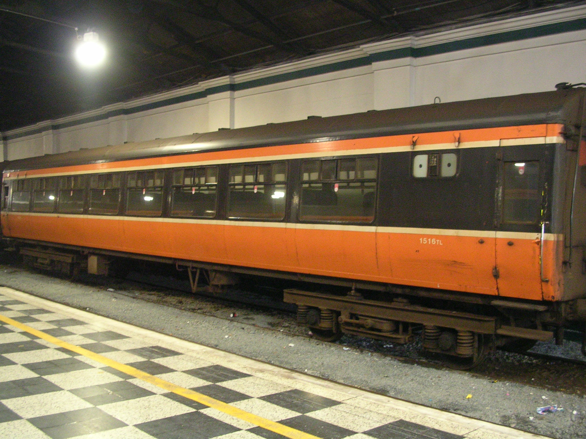 Mark 1 Craven Coach taken at Colbert Station, 2006